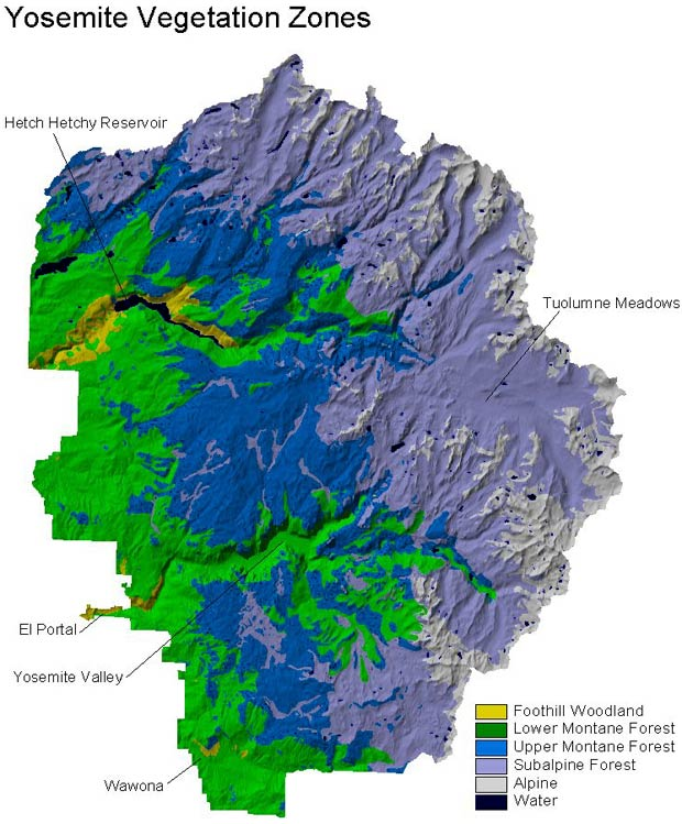 map of vegetation zones in Yosemite National Park, California